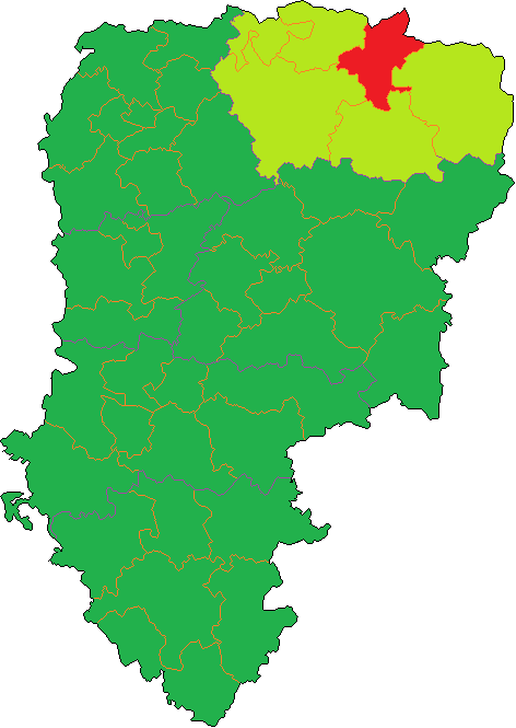 Maps of Roman catholic diocese of Soissons